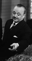 Carlos Barbetti- actor